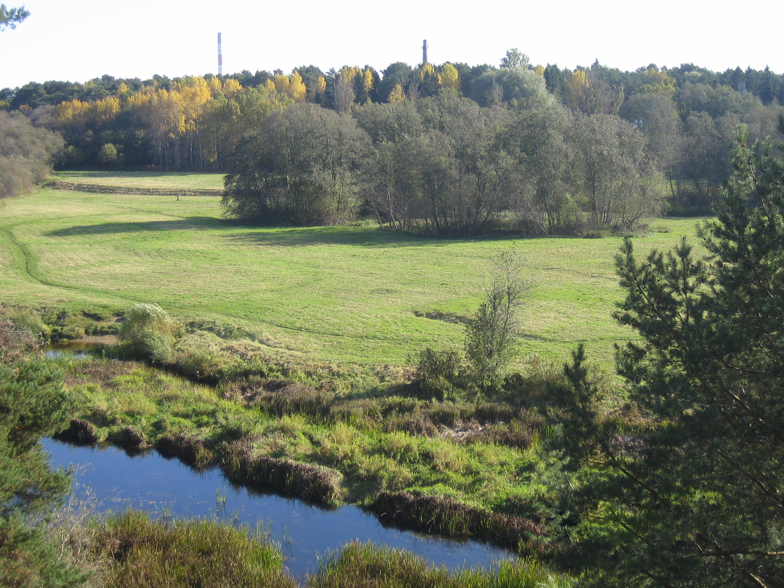 Pirita River Valley Landscape Protection Area